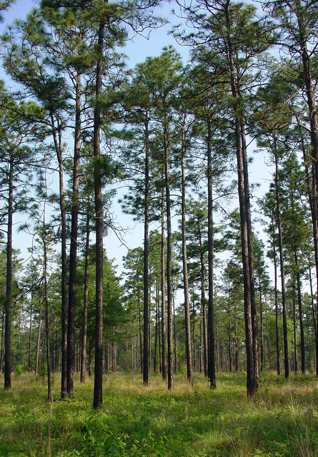 Pinus palustris forest